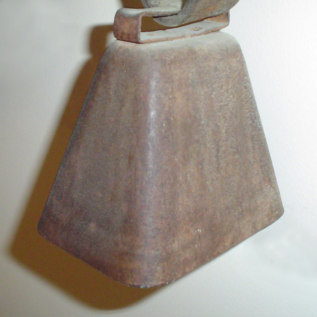 Cowbell.